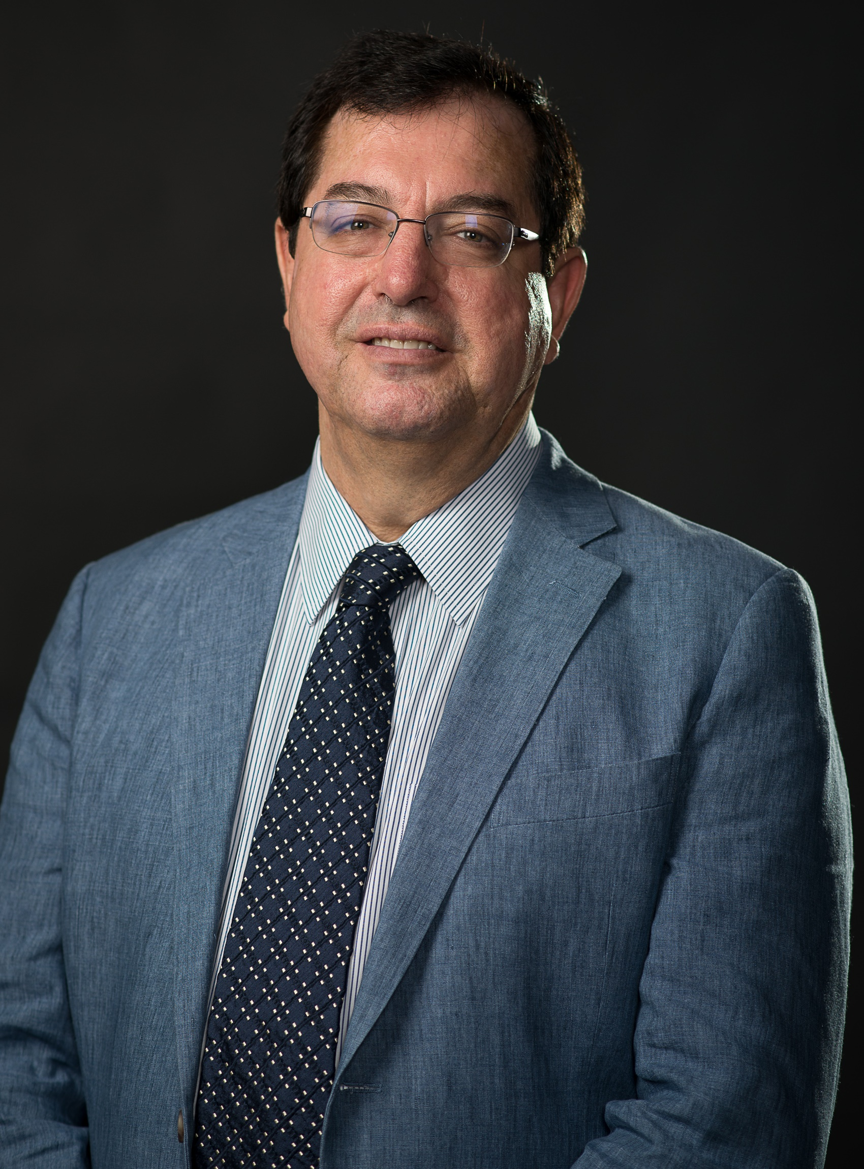 Photo taken of Mark Nigrini